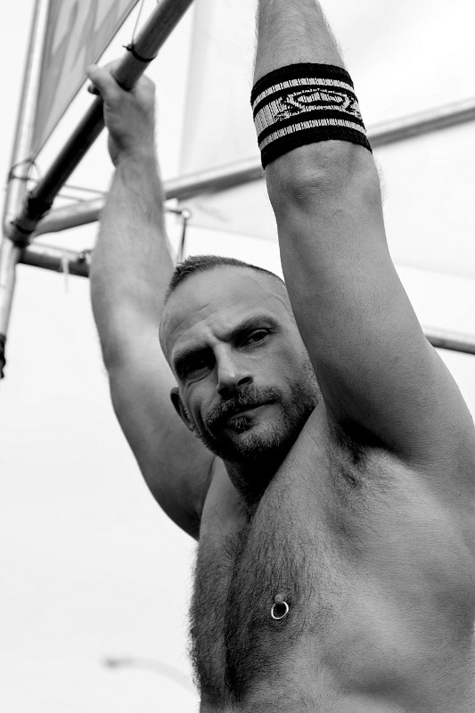 Samuel Colt